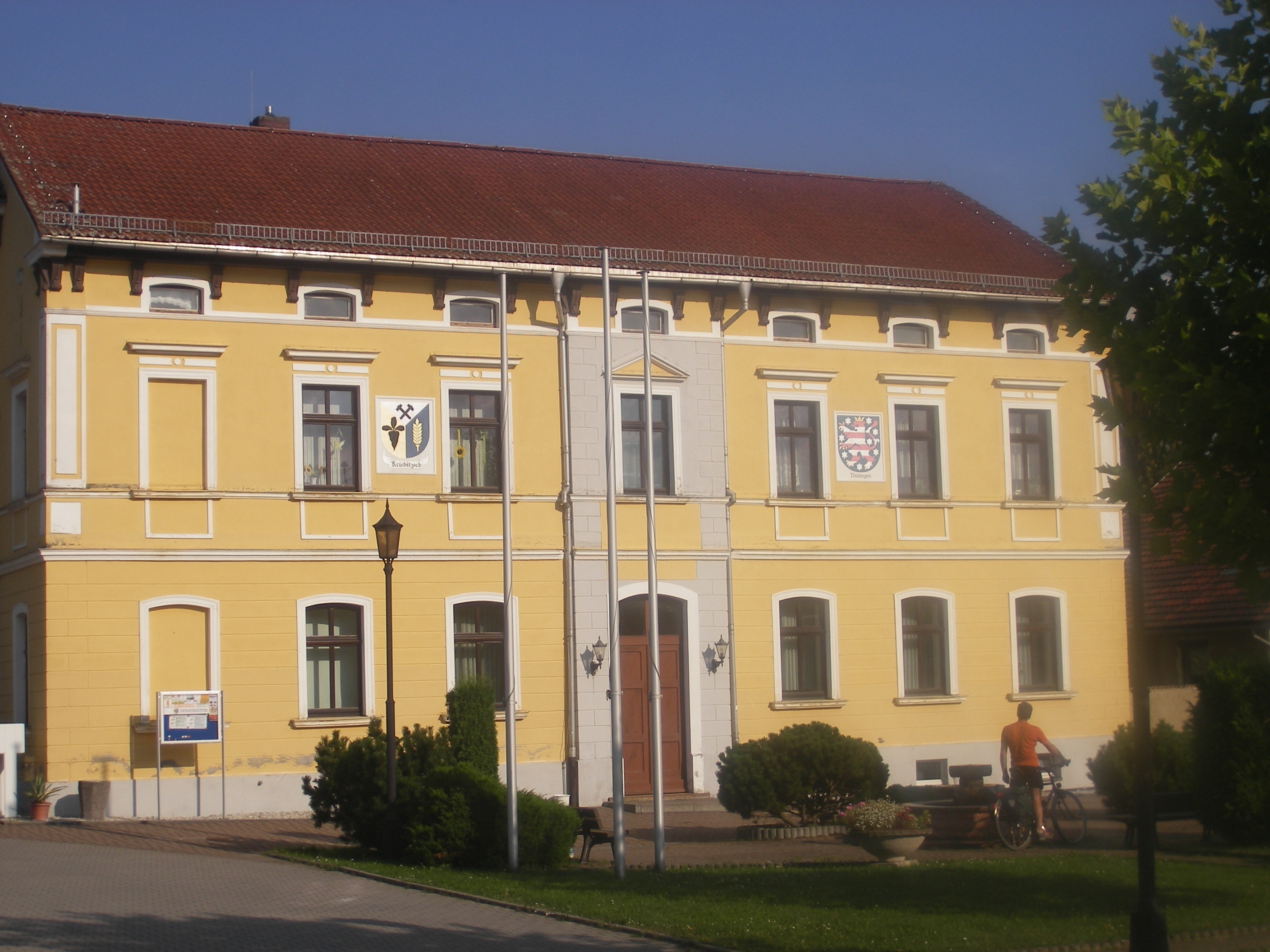 Municipal office in Kriebitzsch near Altenburg/Thuringia